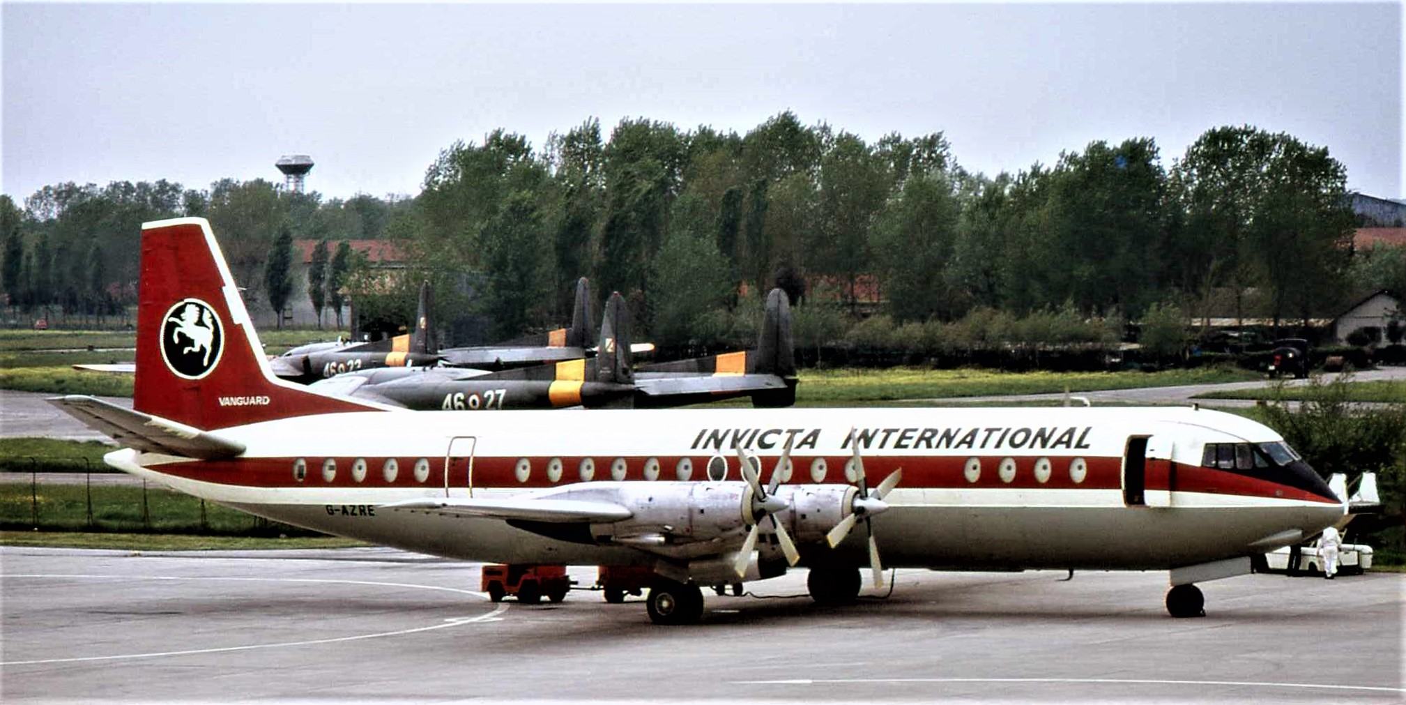 Invicta International Airlines Vickers Vanguard at Pisa Galileo Galilei Airport in 1974.